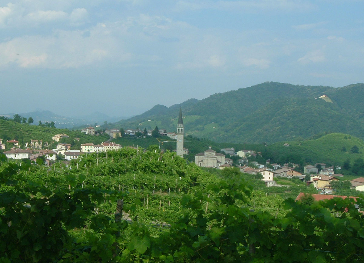 Prosecco vineyards in Guia